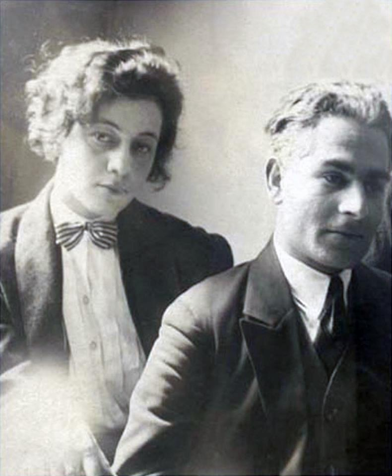 Elene Akhvlediani and Lado Gudiashvili. Paris. 1925